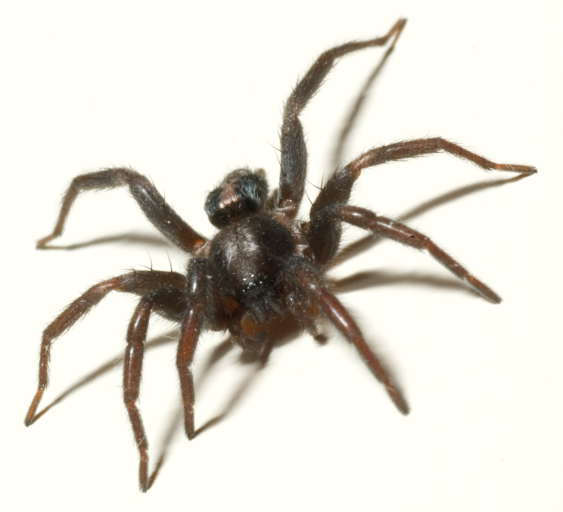 Eastern Parson Spider (Herpyllus ecclesiasticus)